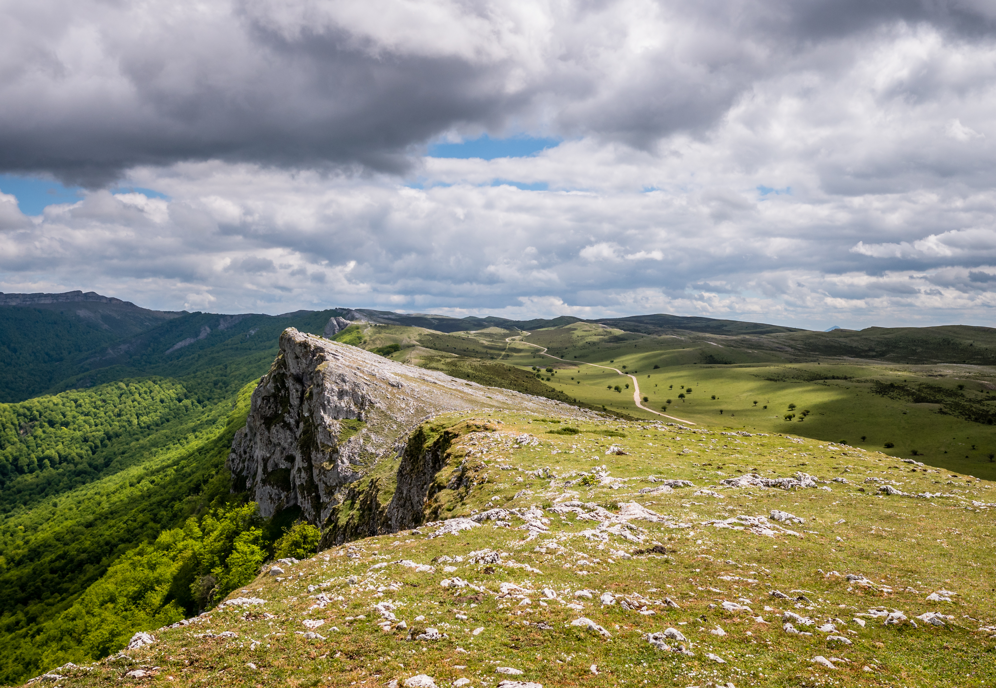 View from the summit of Saratsa in the Andia mountain range. Navarre, Spain